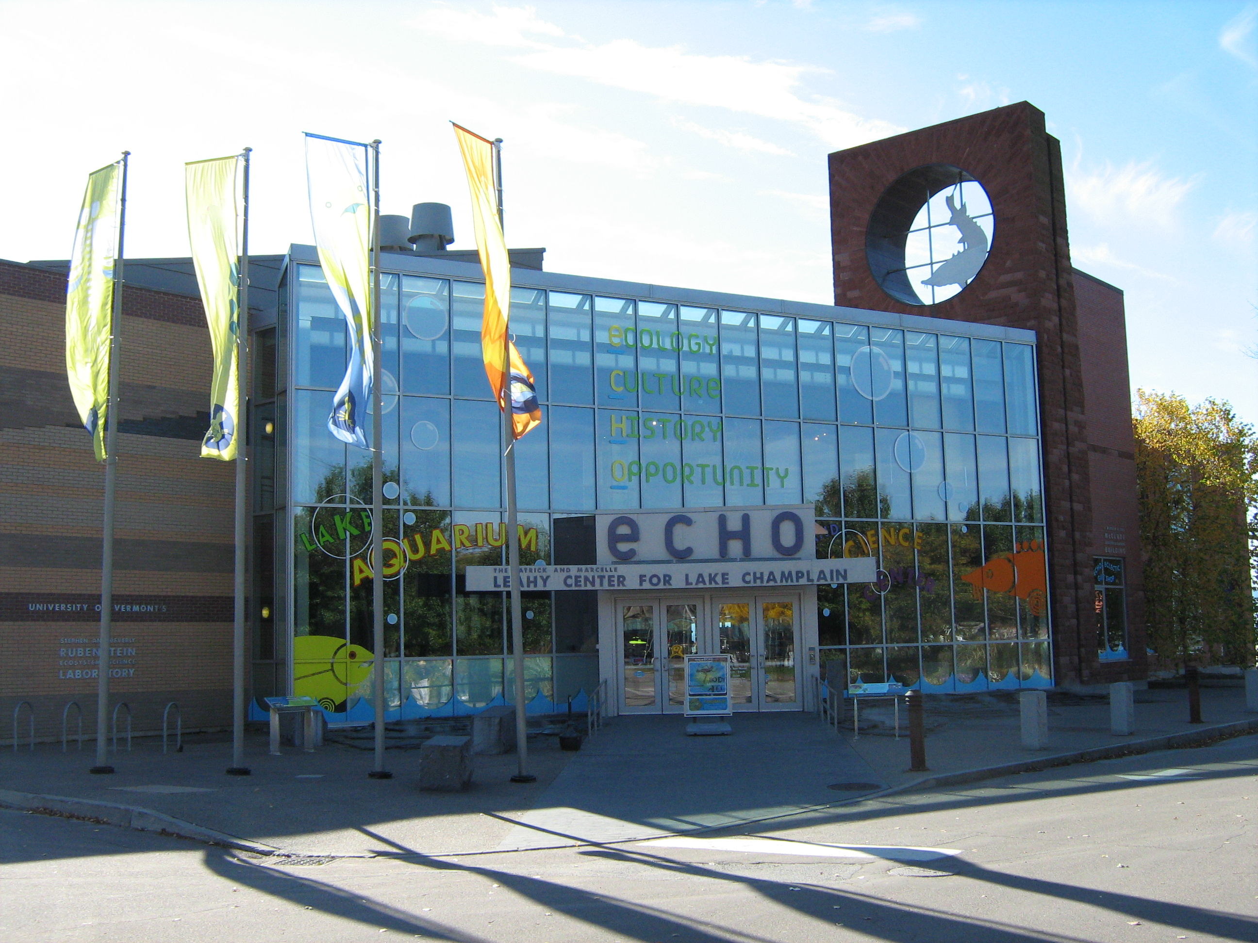 ECHO Lake Aquarium and Science Center on the Waterfront in Burlington, Vermont